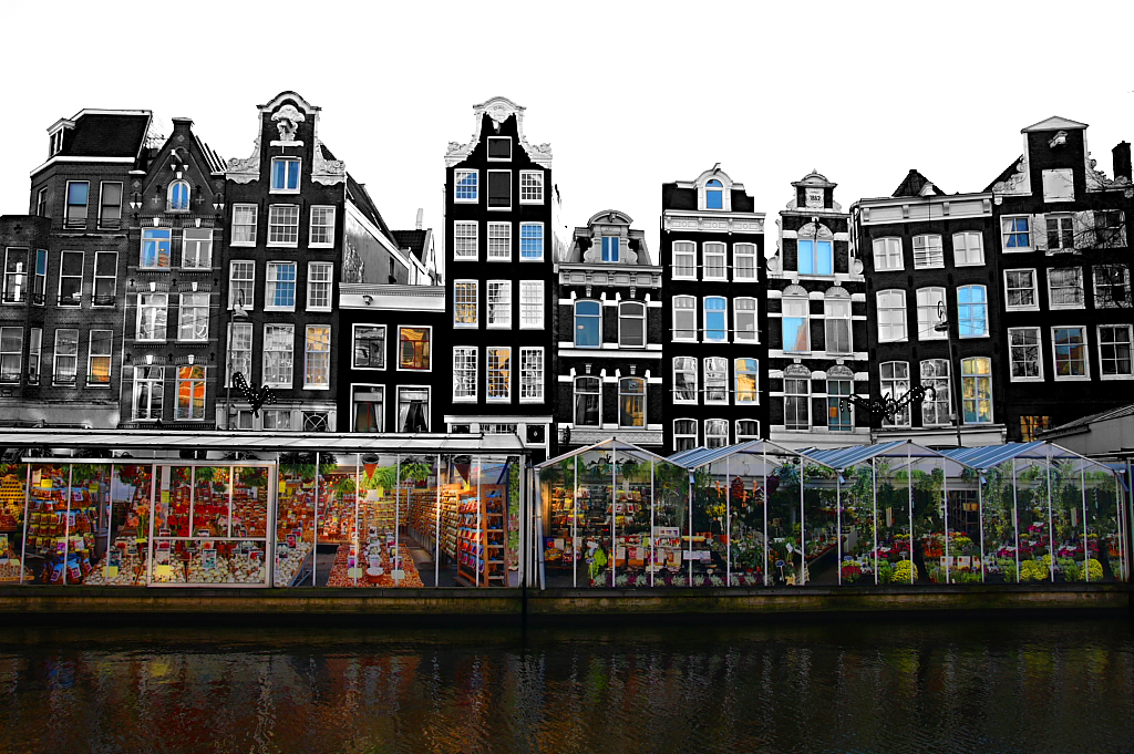 Amsterdam Bloemenmarkt. Taken with a Canon EOS 40D.